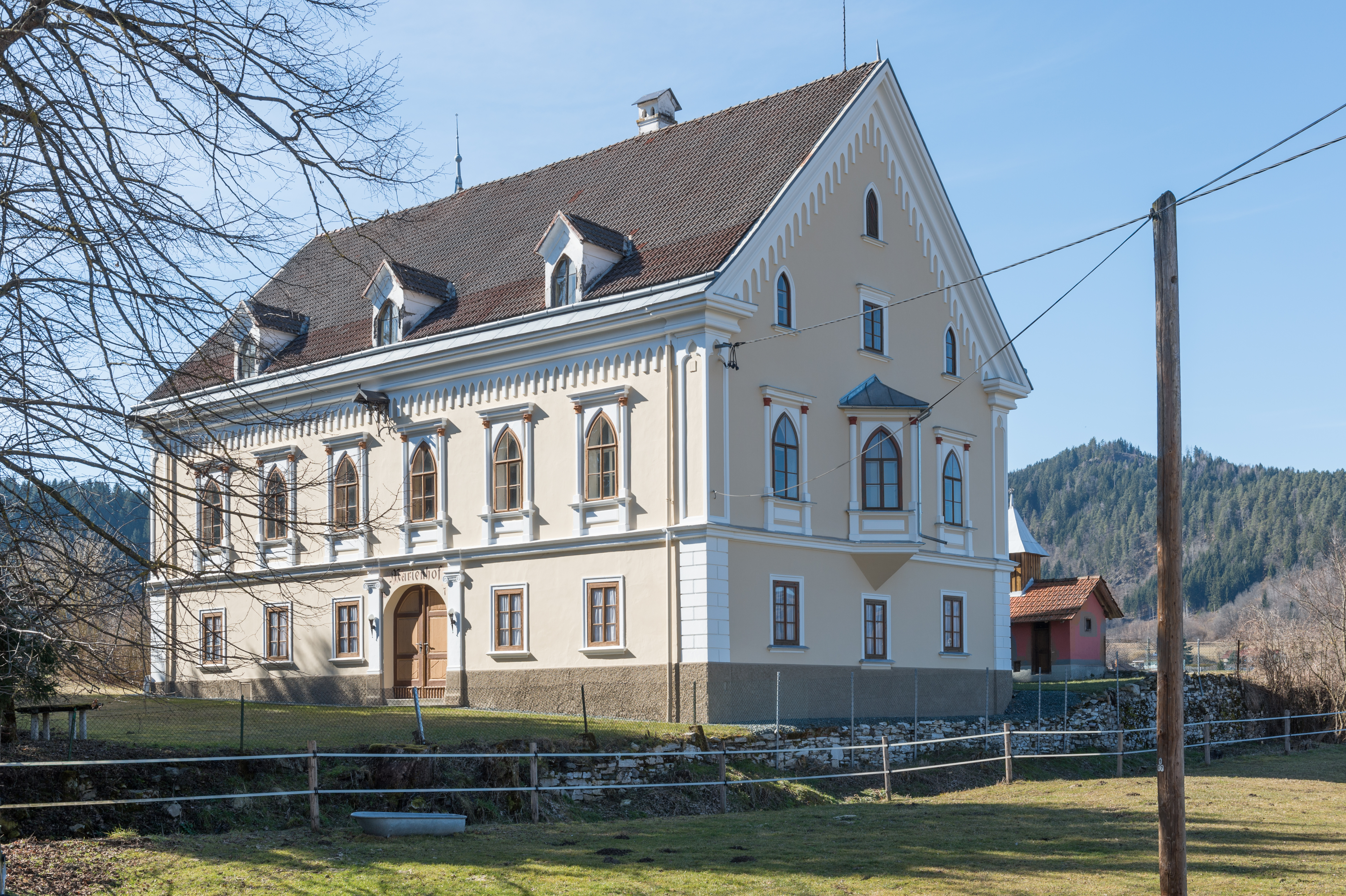 Manor Marienhof in Rabensdorf #33, municipality Feldkirchen, district Feldirchen, Carinthia, Austria, EU